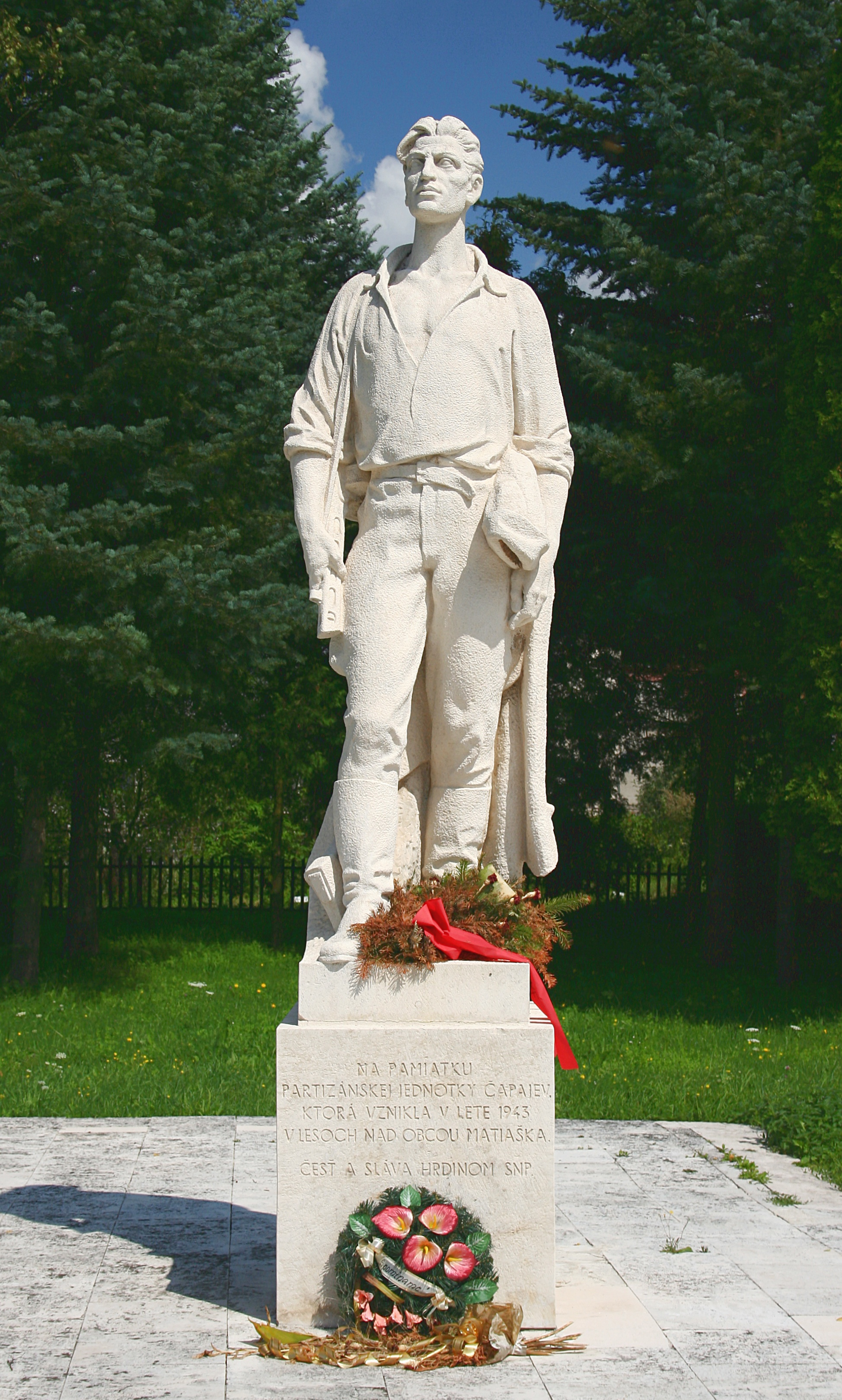 monument in Matiaška, village in Slovakia